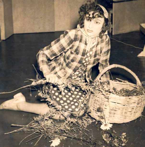 The Brazilian actress Dulcina de Moraes in Bernard Shaw's theater play "Pygmalion".